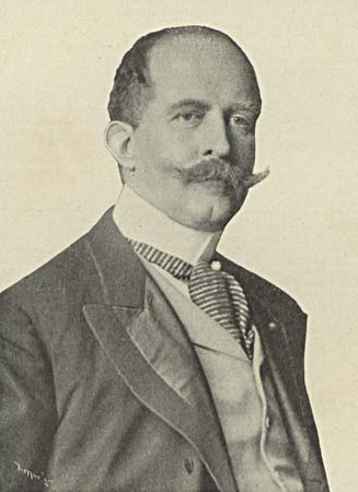 Charles Page Bryan, US diplomat